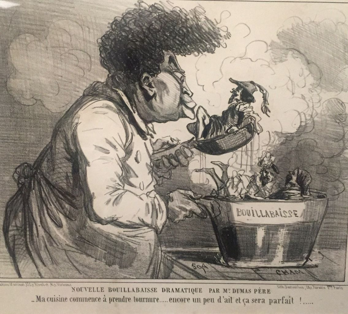 Alexandre Dumas (father) The Quadroon Chef - Dumas concocting his bouillabaisse of romance